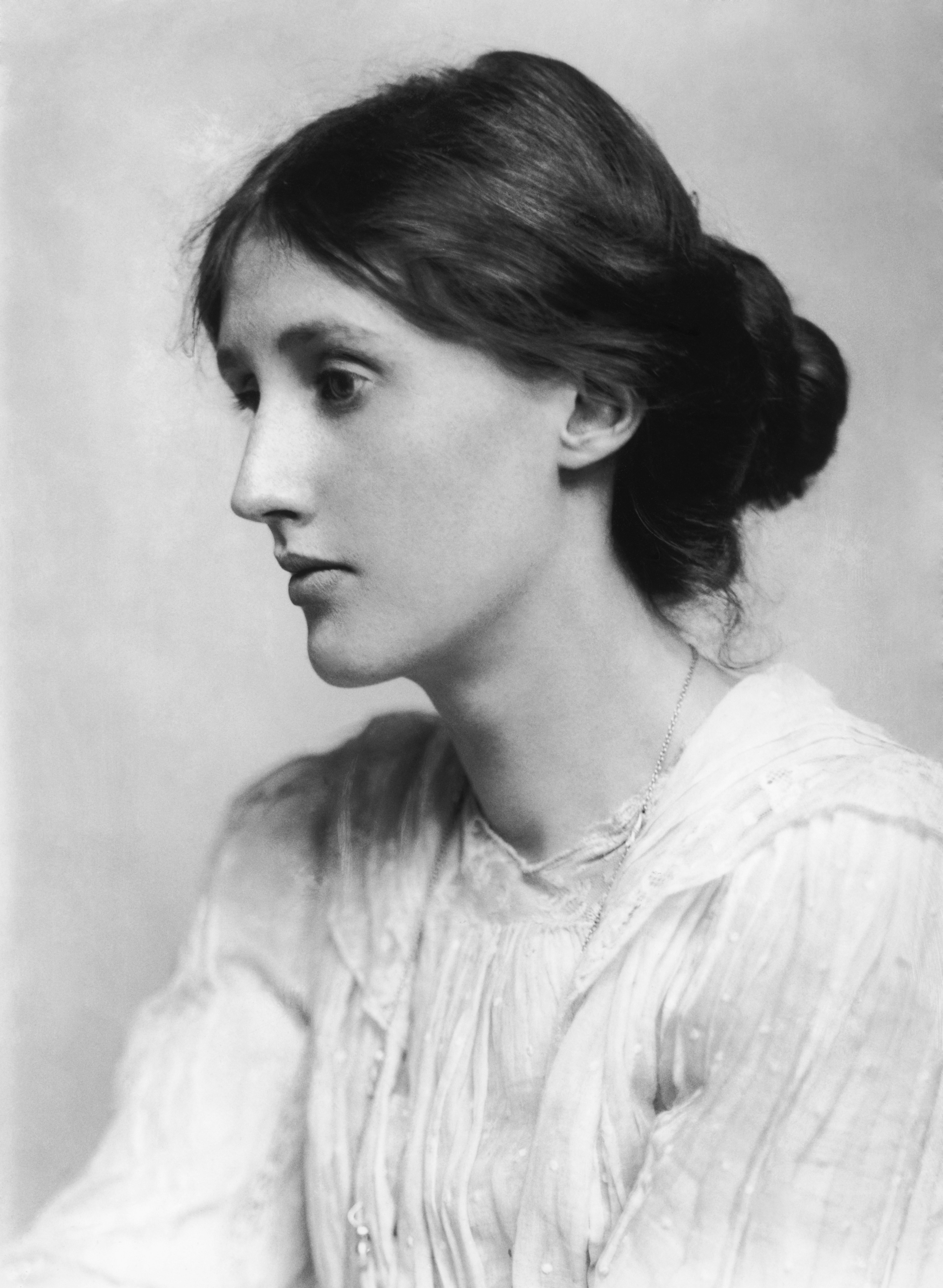 Portrait of Virginia Woolf (January 25, 1882 – March 28, 1941), a British author and feminist.